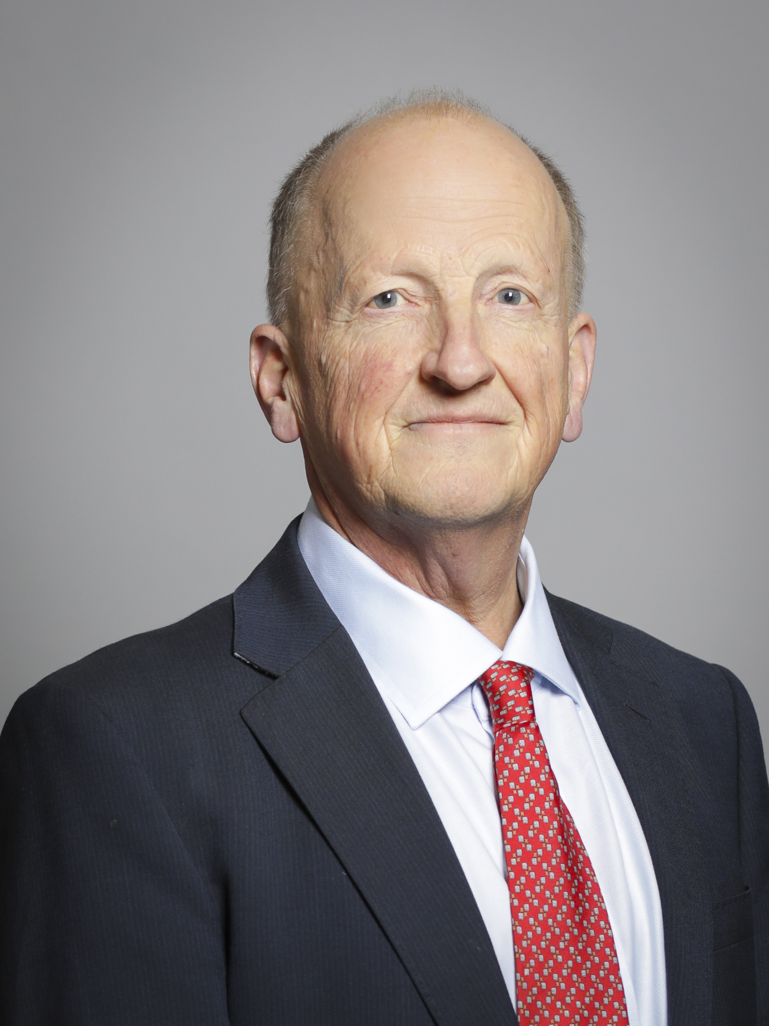 Official portrait of Lord Cromwell 3×4 portrait of Lord Cromwell